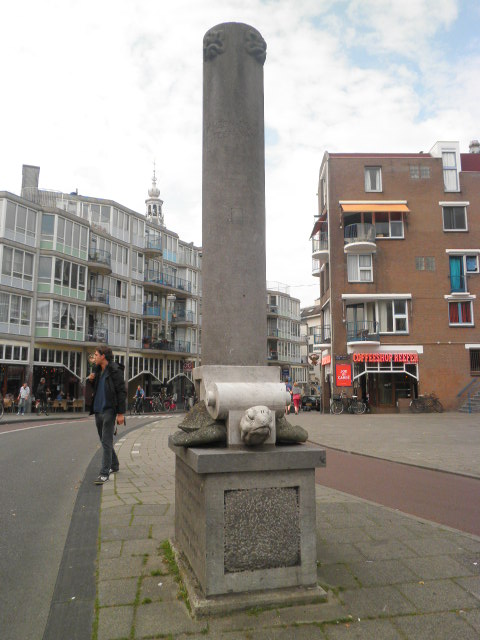 Sculpture at the Sint Antoniebreestraat - Jodenbreestraat, Amsterdam